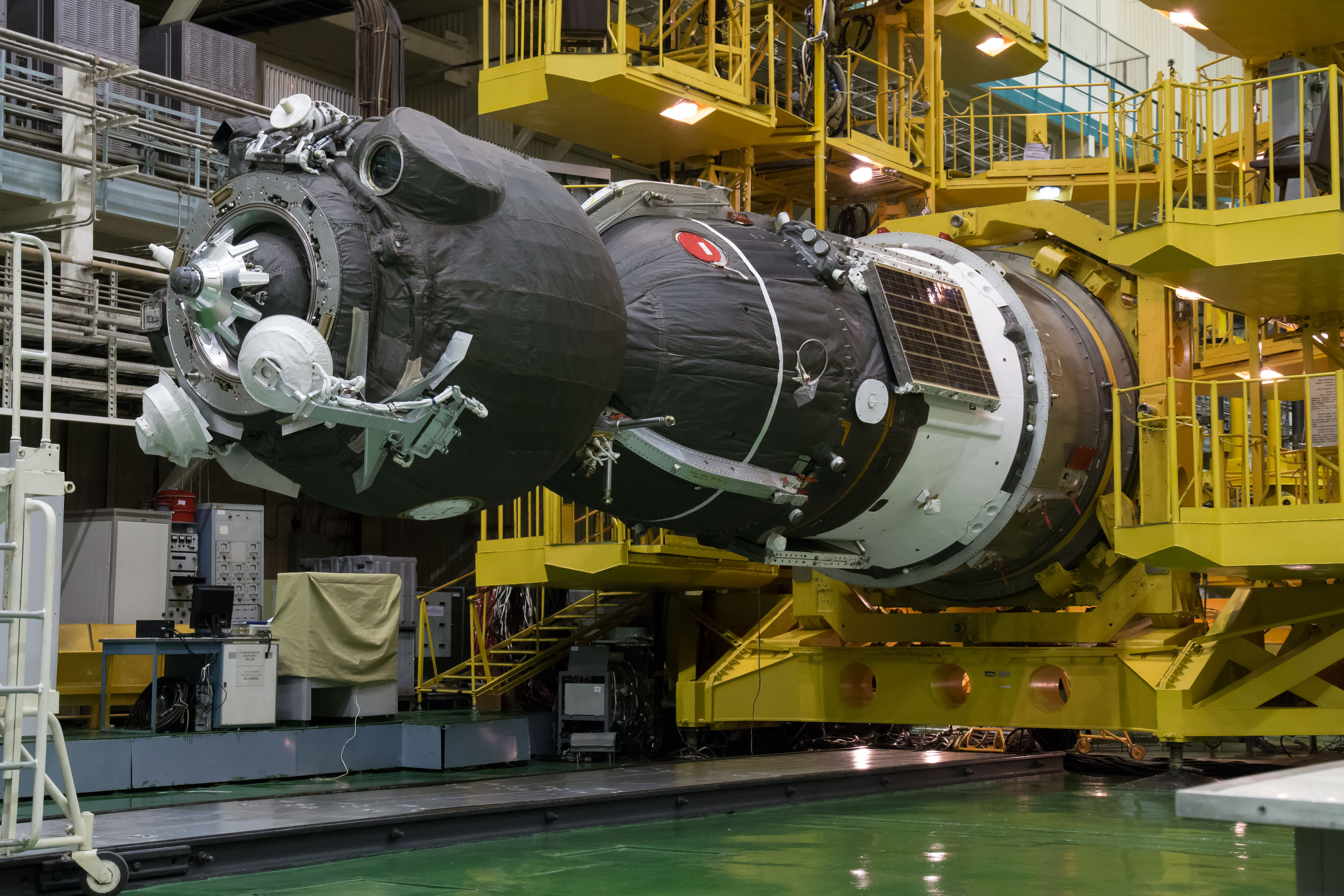 At the Integration Facility at the Baikonur Cosmodrome in Kazakhstan, the Soyuz TMA-14M spacecraft awaits its encapsulation in the upper stage of the Soyuz booster rocket Sept. 18 that will propel it into orbit. The Soyuz will arrive at its launch pad on Sept. 23 for final prelaunch preparations. Expedition 41 Flight Engineer Barry Wilmore of NASA, Soyuz Commander Alexander Samokutyaev of the Russian Federal Space Agency (Roscosmos) and Flight Engineer Elena Serova of Roscosmos are scheduled to launch aboard the Soyuz Sept. 26, Kazakh time, to begin a 5 ½ month mission on the International Space Station. Serova will become the fourth Russian woman to fly in space and the first Russian woman to live and work on the station.